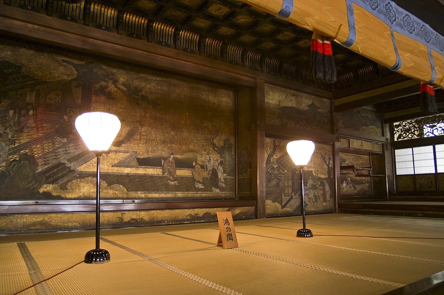 (2005/11/26 Hongwanji Temple, Kyoto, JAPAN) /* UNESCO World Heritage */Historic Monuments of Ancient Kyoto (Kyoto, Uji and Otsu Cities) (1994)